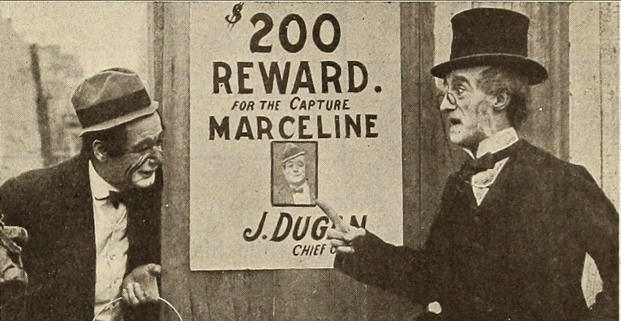 Still of Marceline Orbes in The Mishaps of Marceline (1915). Still from the film appeared in the February 27, 1915 issue of Real Life